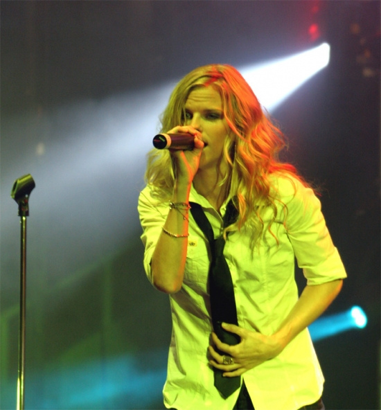 Ana Johnsson at NRJ in the Park, 2006